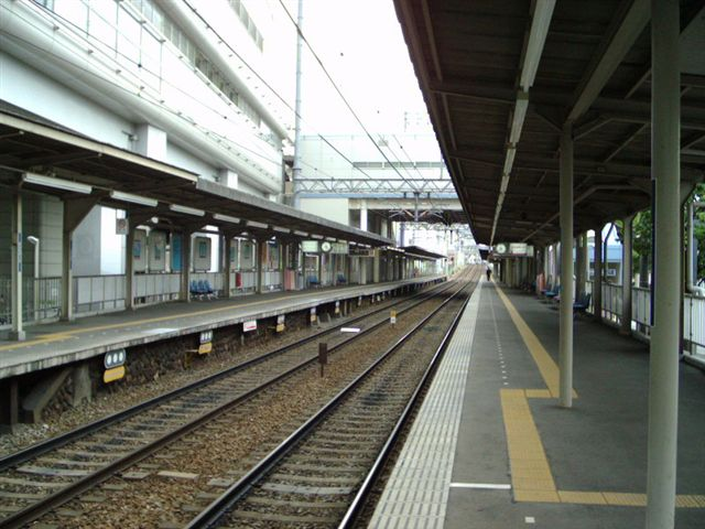 Station Home of Hankyu Hotarugaike Station(Photograpy:Nozomikobe/9 Jun,2006)